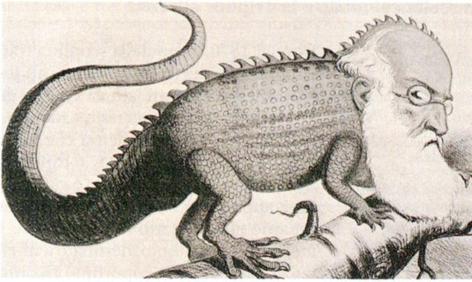 Caricature of italian politician Agostino Depretis (1813-1887) "chameleon"